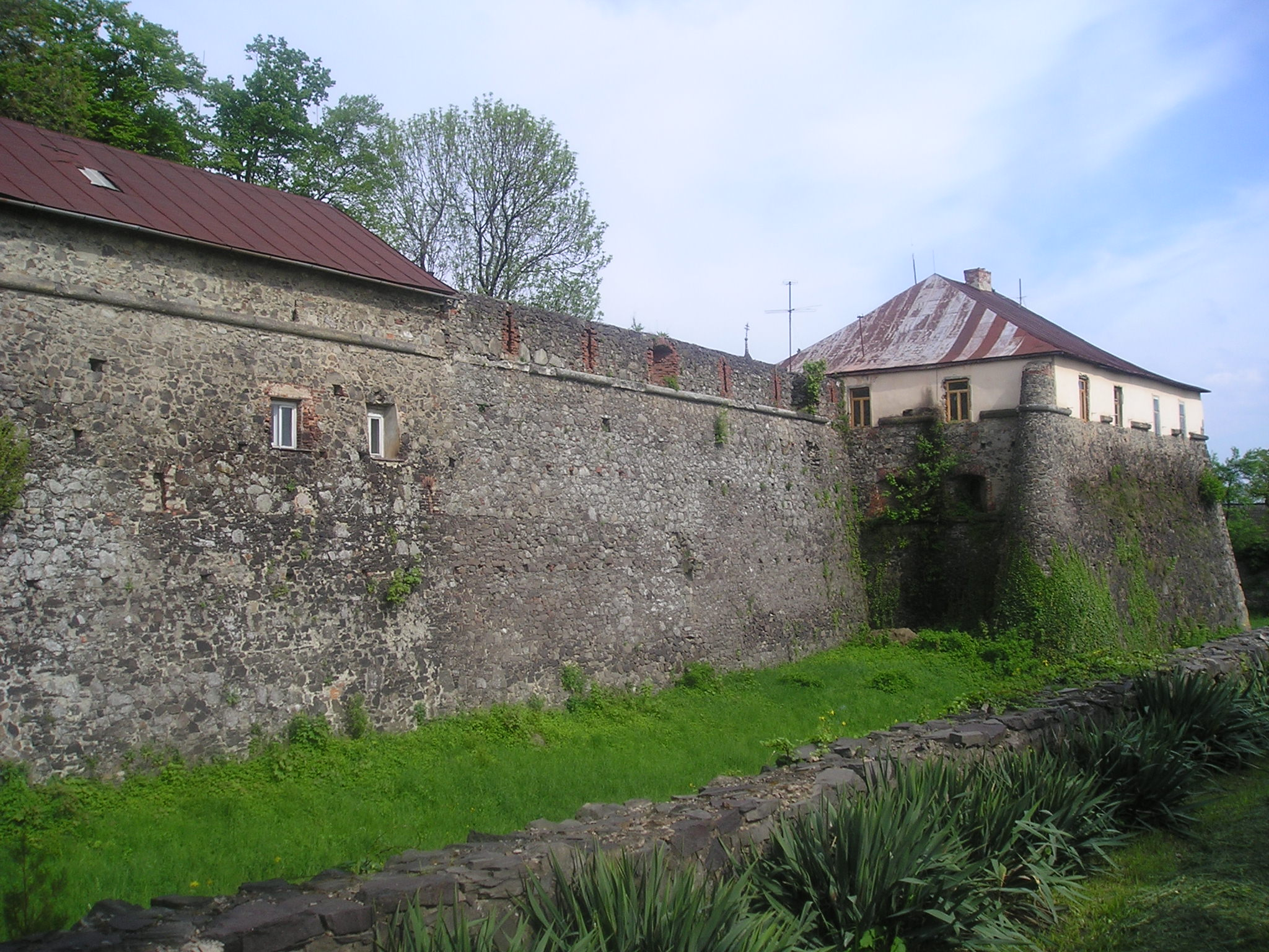 Ukraine. Uzhhorod Castle.